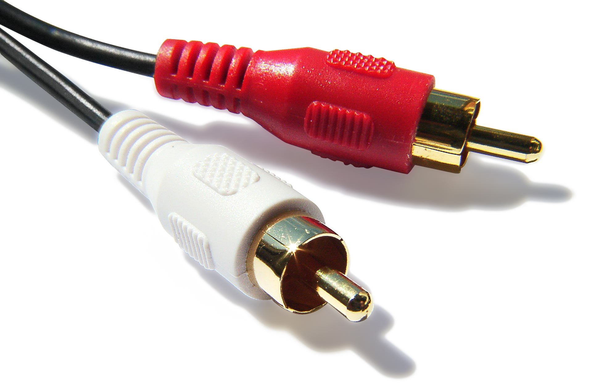 Cinch (Audio)